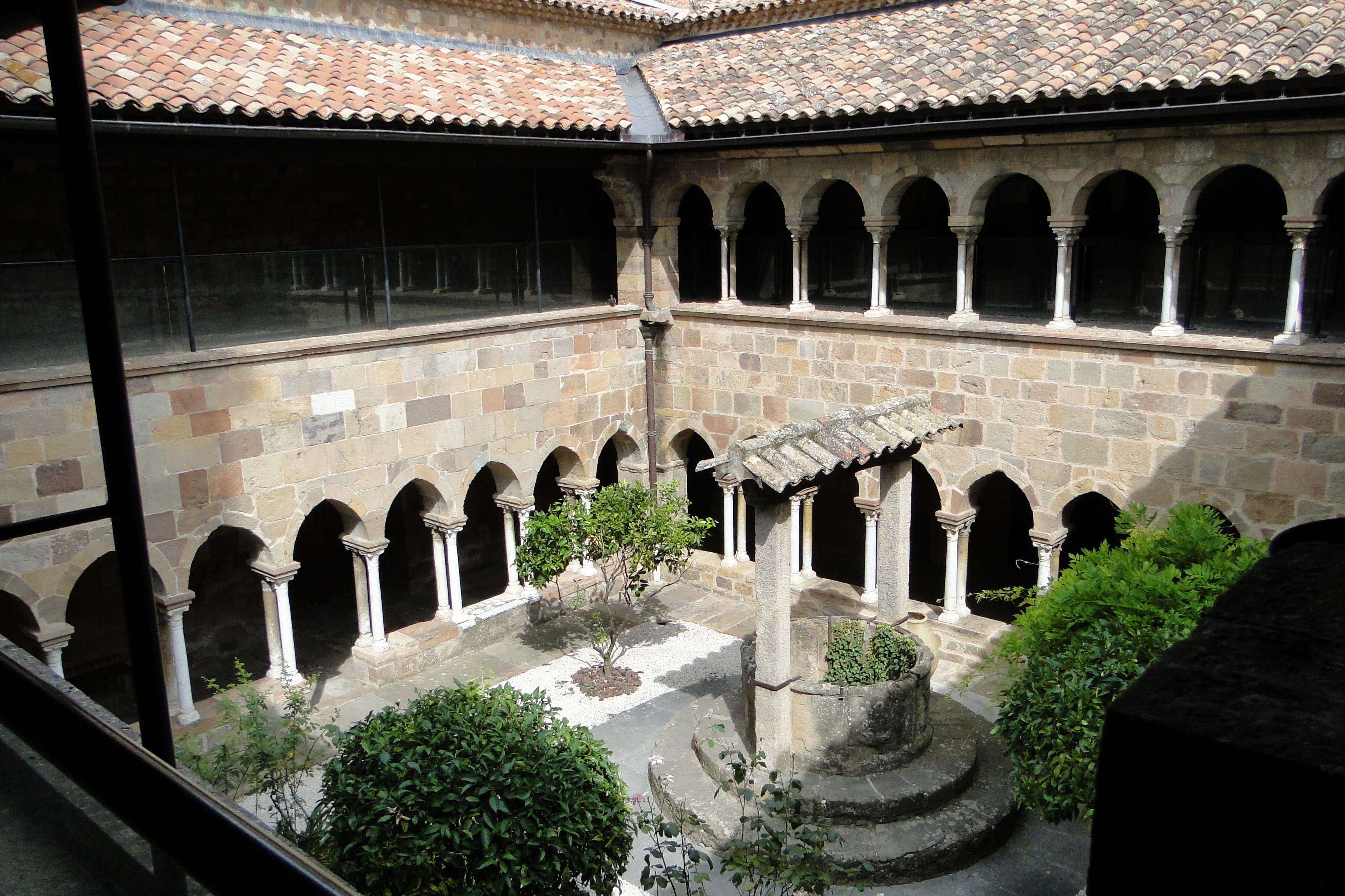 Cathedral of Frejus - Cloister